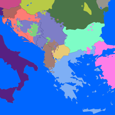 Ethnic groups in Southeastern Europe (Balkans) by municipality data.